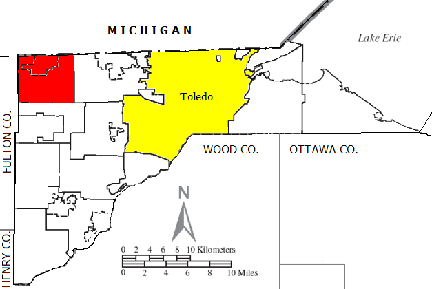 Made by the US Census and modified by myself